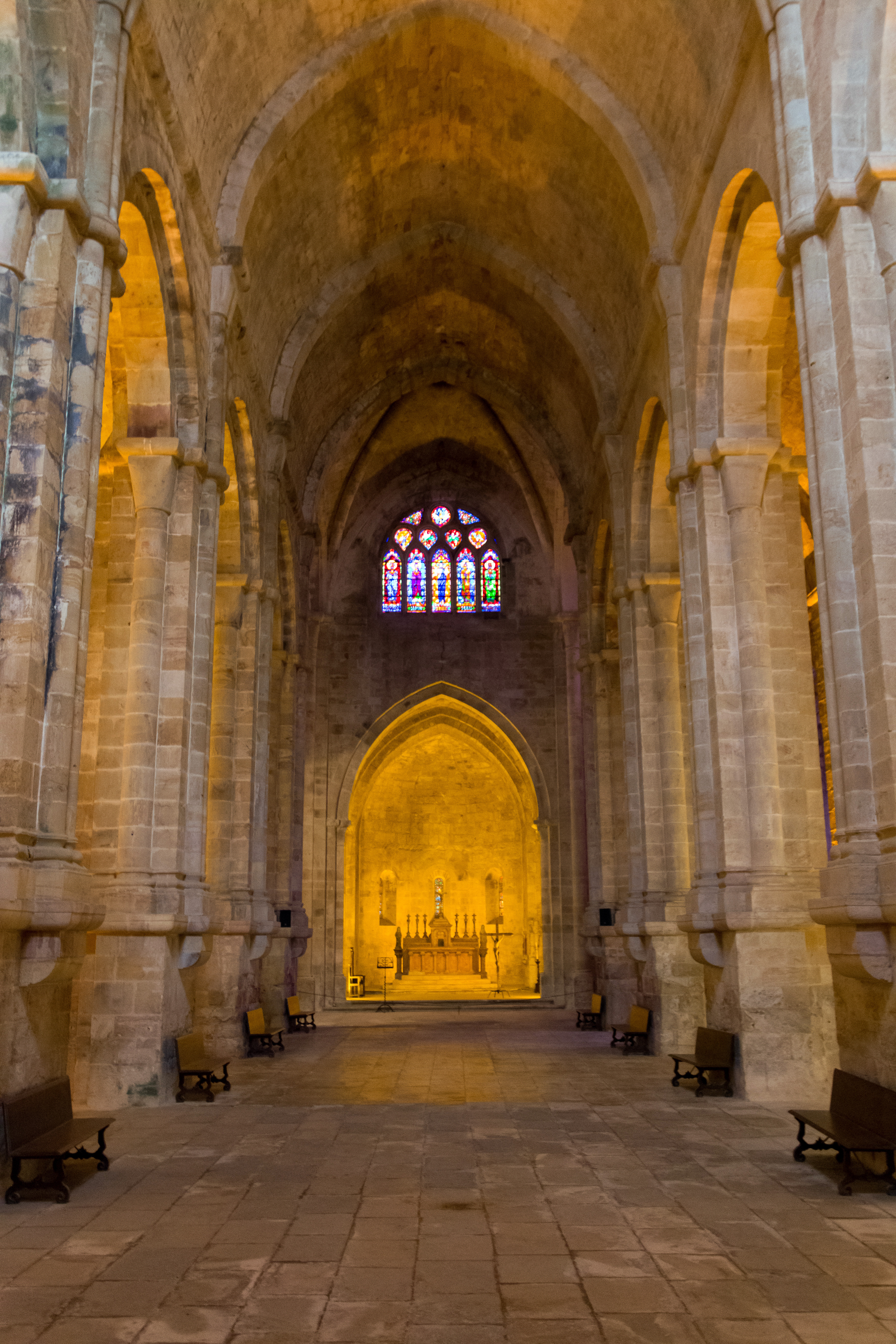 Vessel of the nave.